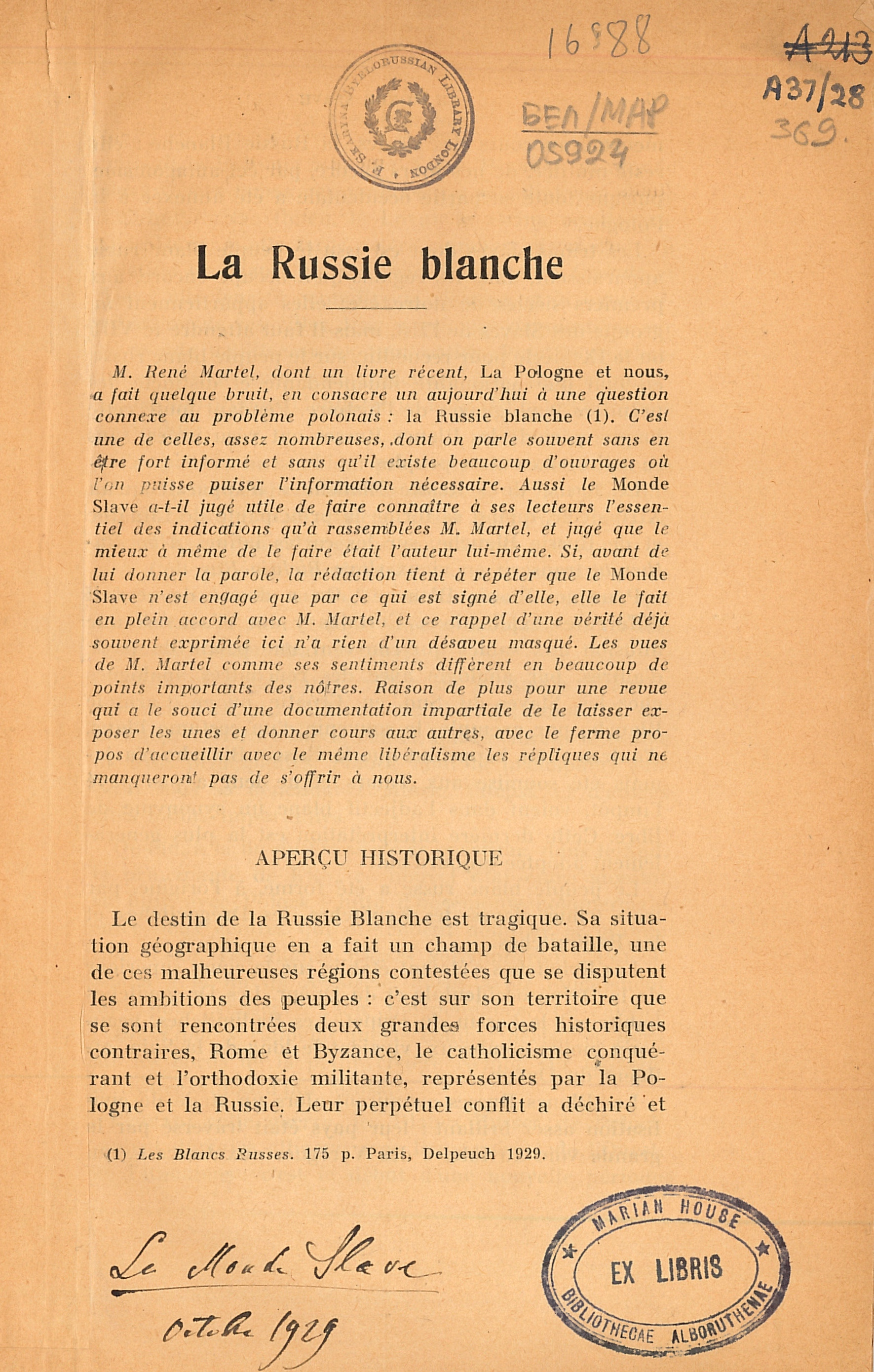 First page of René Martel's La Russie blanche. Made from a copy preserved at the Francis Skaryna Belarusian Library and Museum, London. Беларуская (тарашкевіца): Першая старонка памфлету Рэнэ Мартэля "La Russie blanche". Зроблена з асобніка, які захоўваецца ў Беларускай бібліятэцы і музэі імя Францішка Скарыны ў Лёндане.